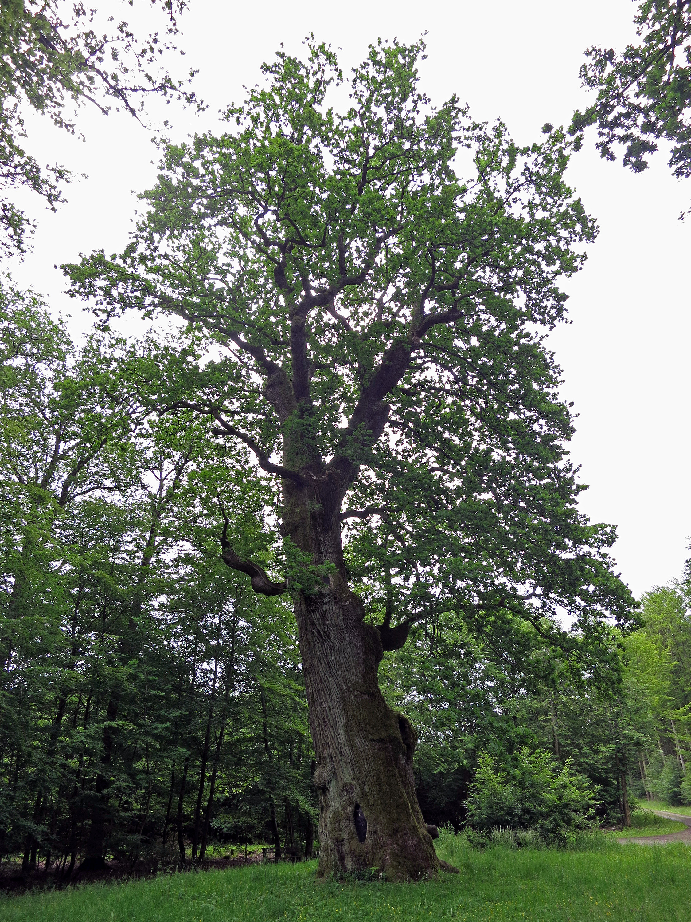 Hammundesoak at Freidewald, Germany